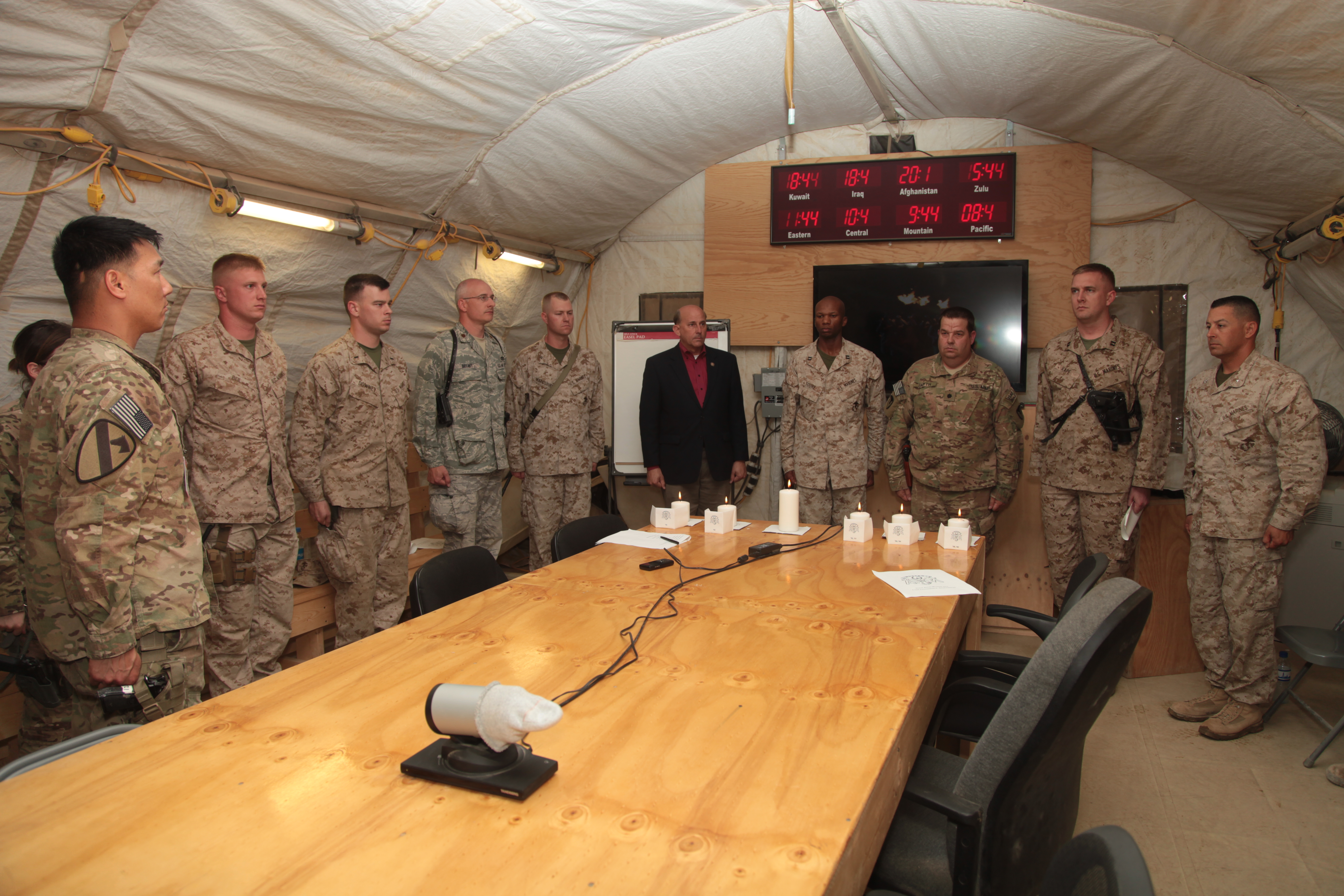 Logistics Task Force—4, part of the Army Field Support Battalion-Kandahar, hosted the annual Texas A&M Muster at Camp Leatherneck on April 21. The annual alumni event is held around the world to remember Aggies that have passed away in the last year and is a time for A&M alumni to gather together. Members of the Air Force, Marines and Army were there to participate. Rep. Louie Gohmert (R-Texas), an A&M alumnus, was also in attendance and served as the keynote speaker. (U.S. Marine Corps photo by Lance Cpl. Catie D. Edwards/Reviewed)